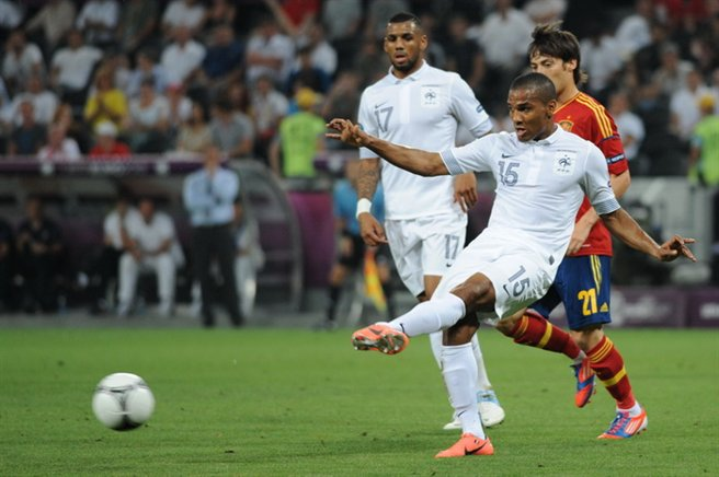 Florent Malouda at Euro 2012 match Spain-France